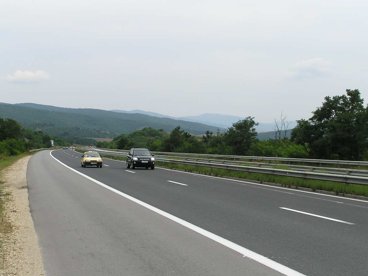 Highway Trakia.